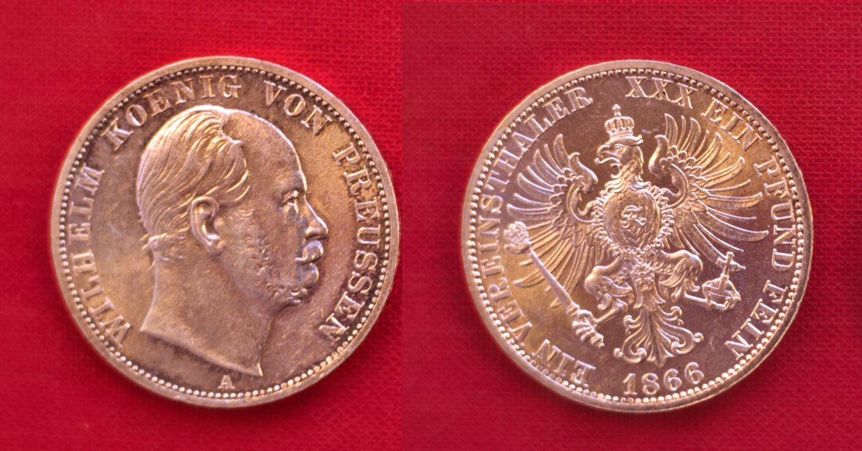 Vereinsthaler Prussia Wilhelm I